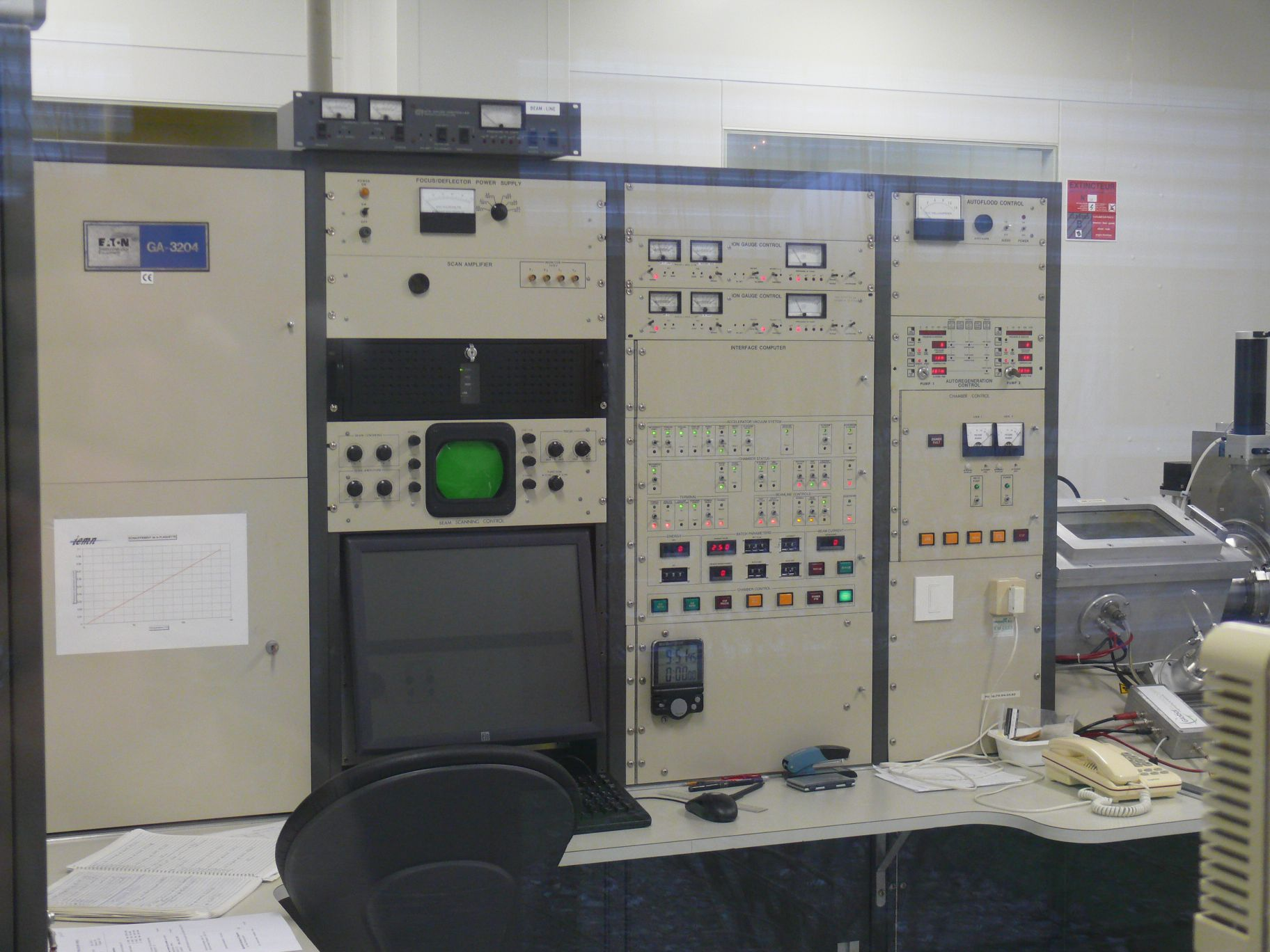 A clean room at IEMN, in Villeneuve-d'Ascq (Nord, France).